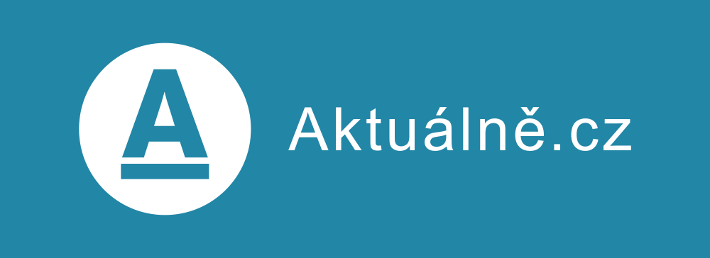 Logo of online newspaper Aktuálně.cz